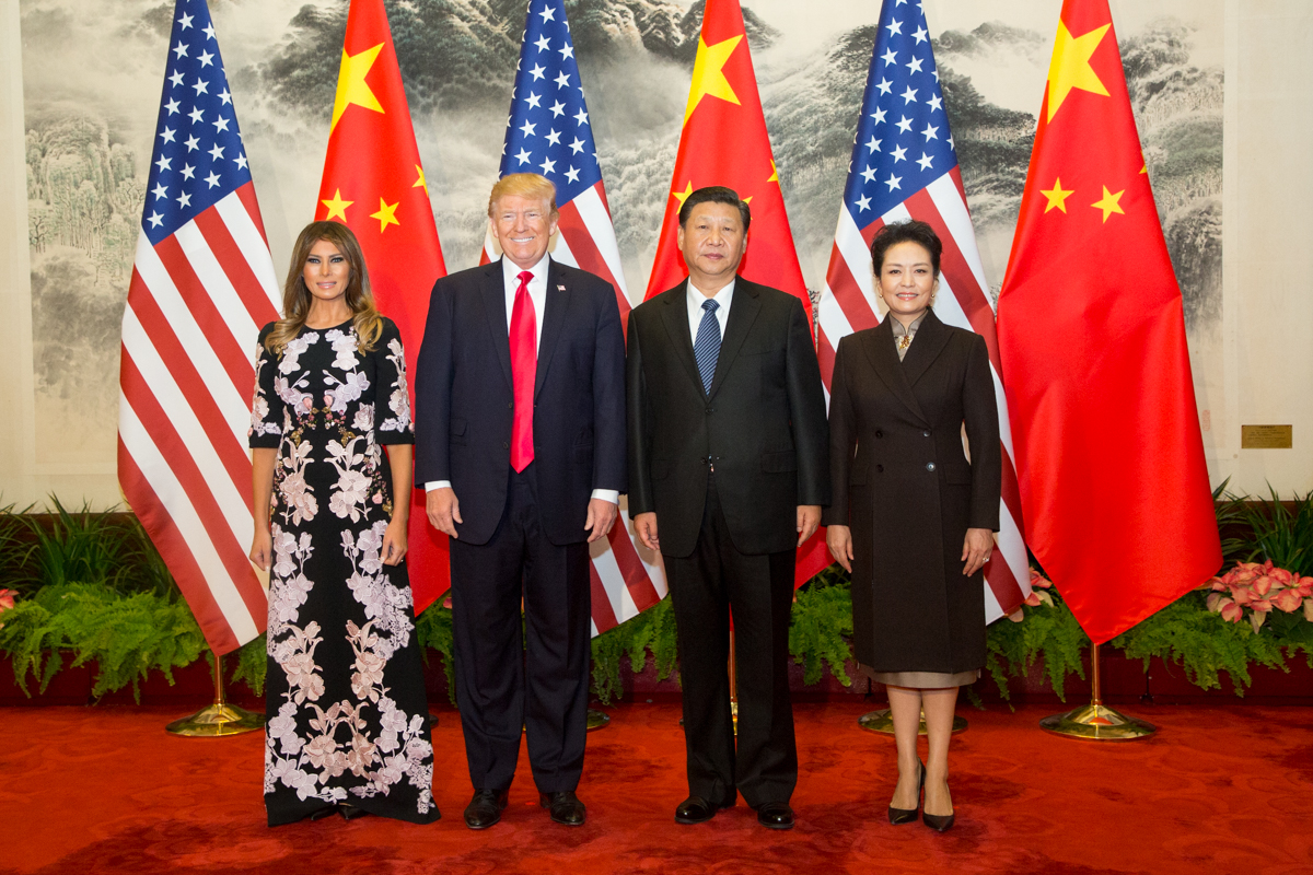 President Donald J. Trump visits China | 2017